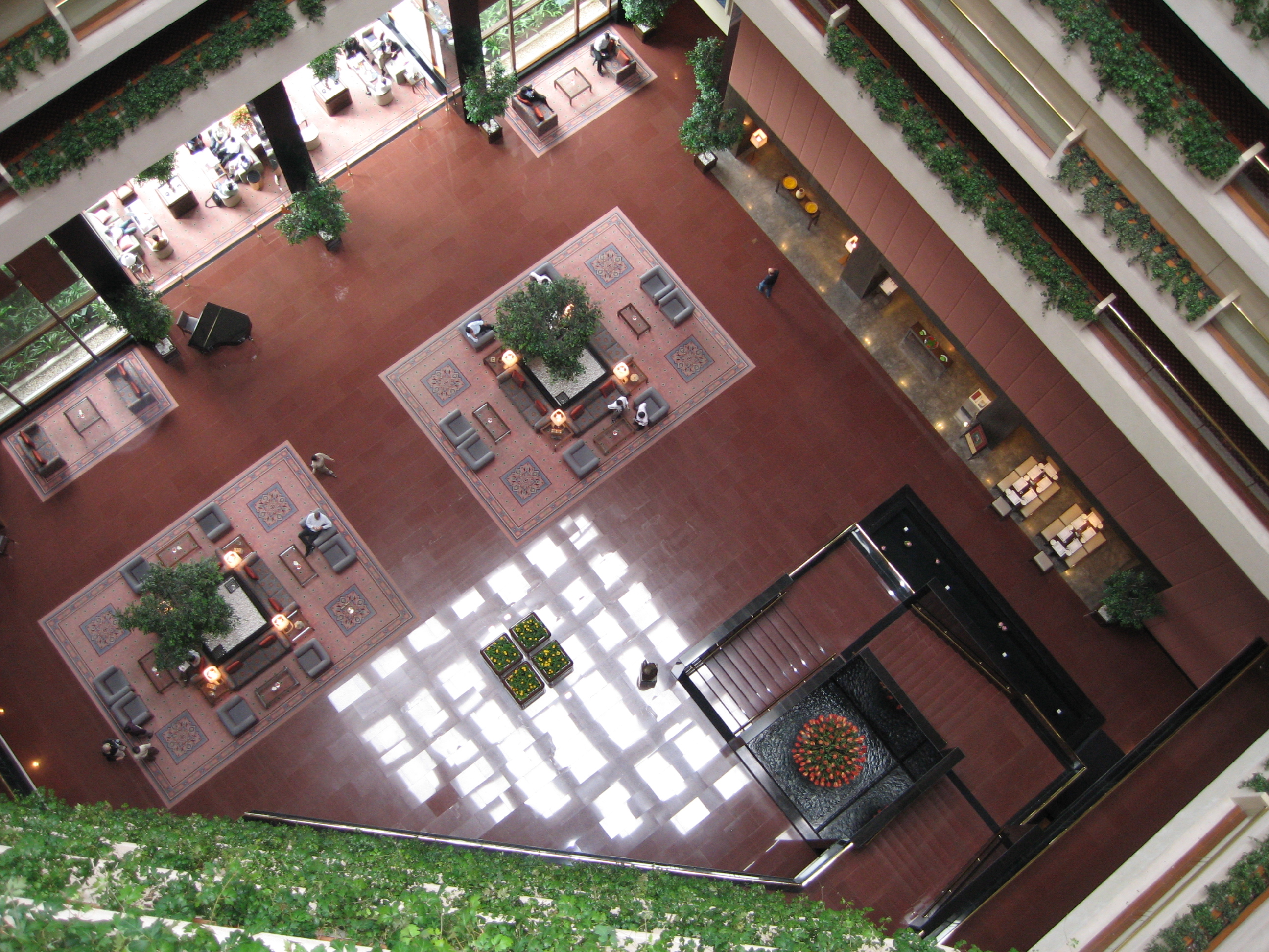 The Oberoi, Mumbai, India